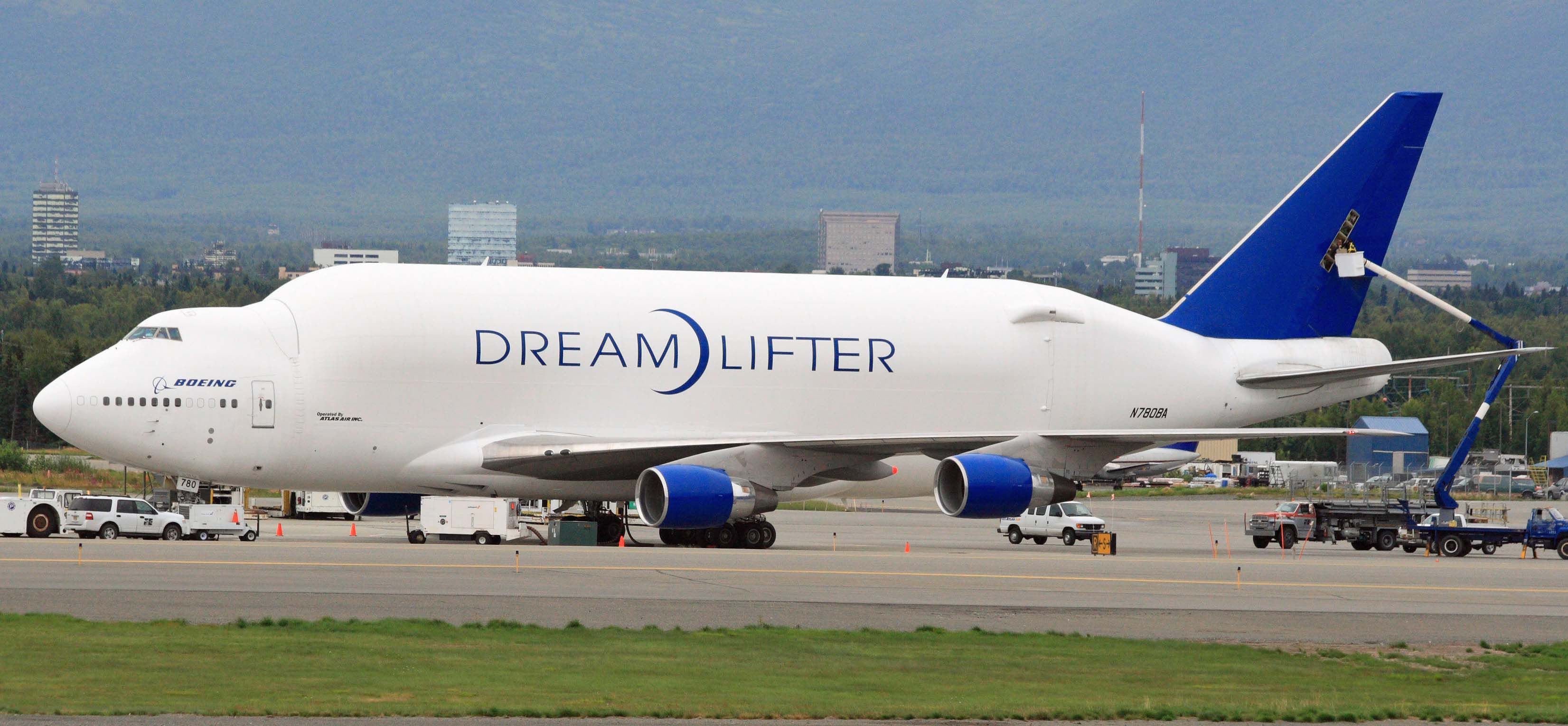 I took this photo at Anchorage International Airport in August 2011.